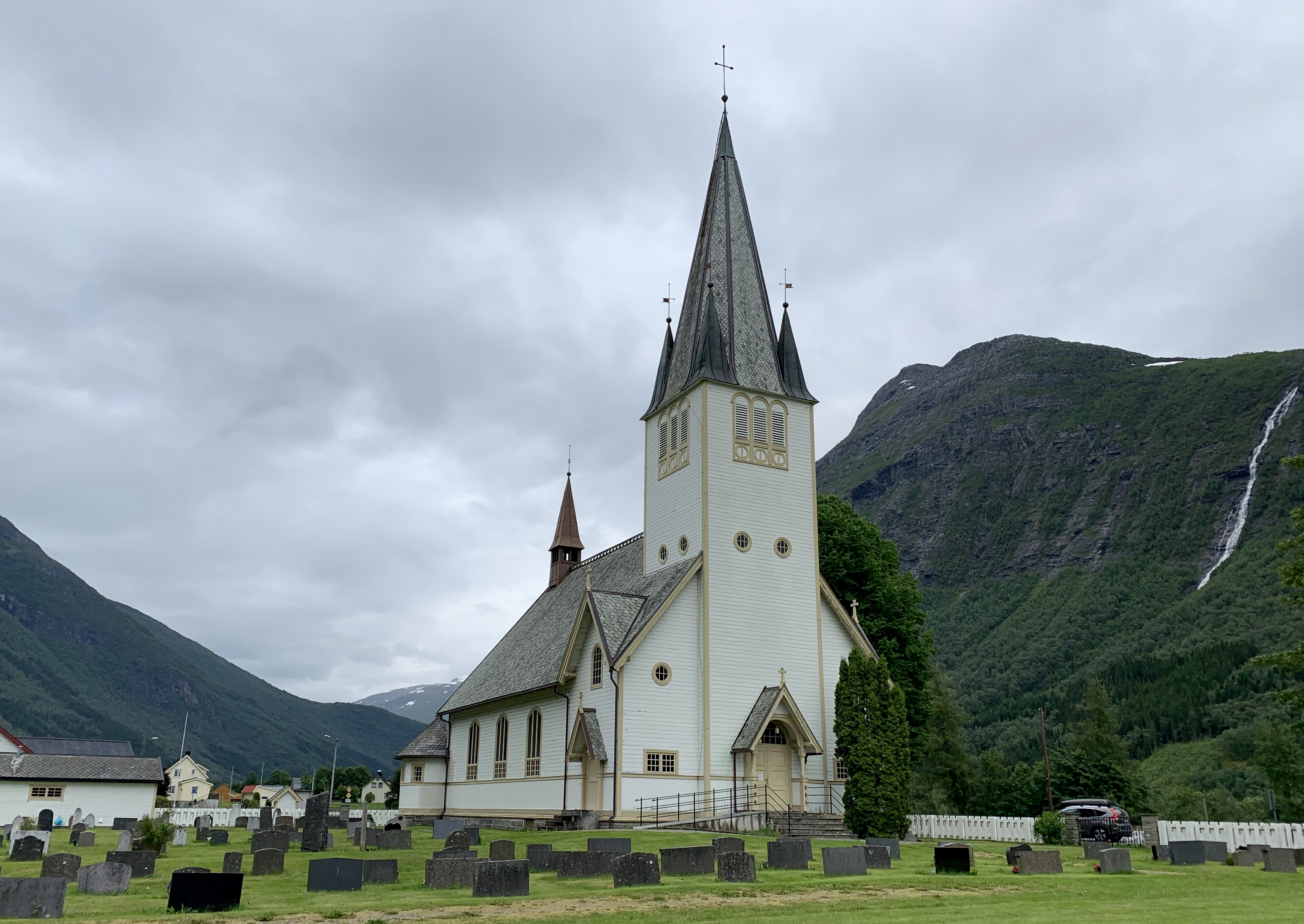 Stordal kirke